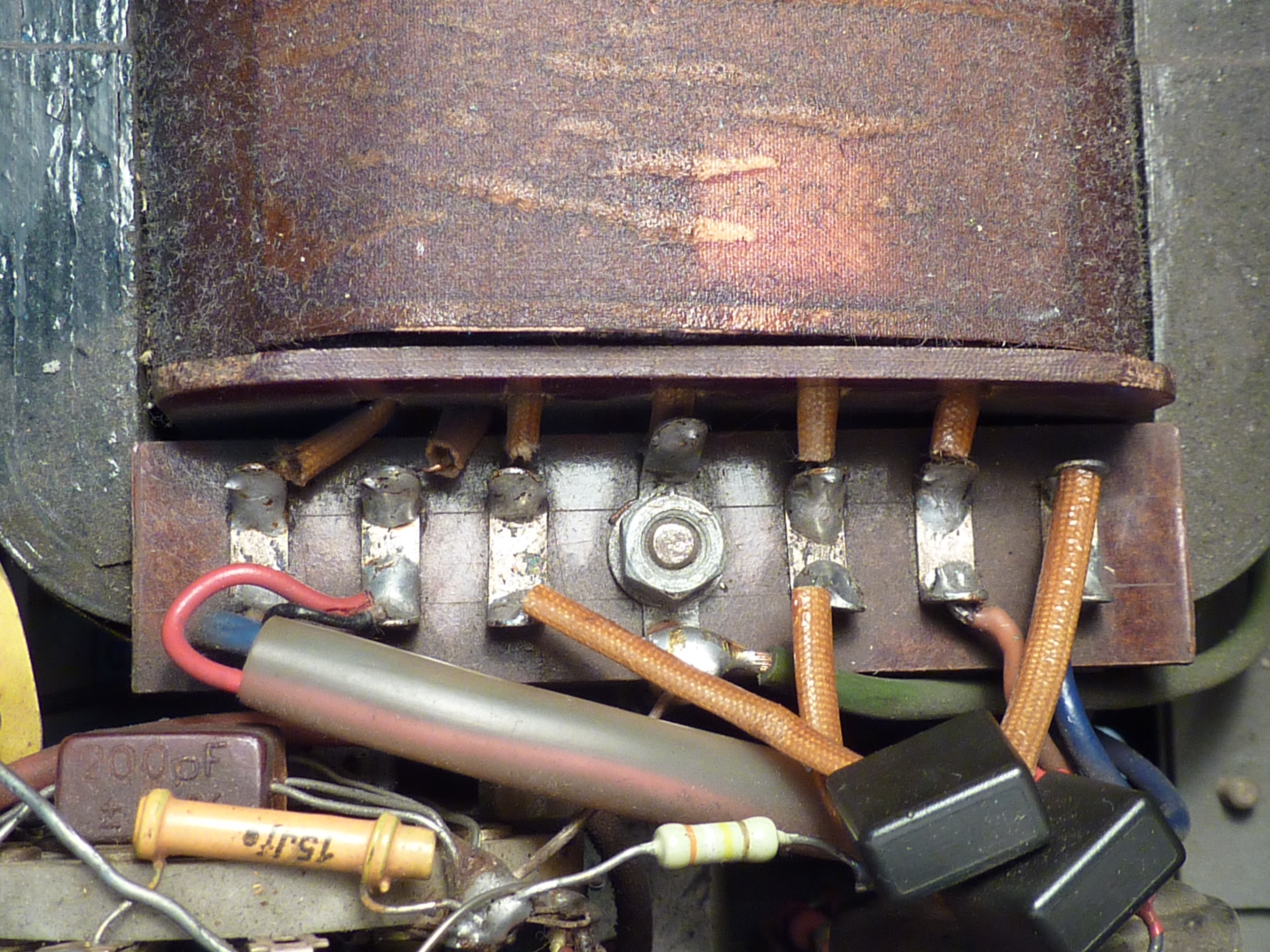 electrical connector